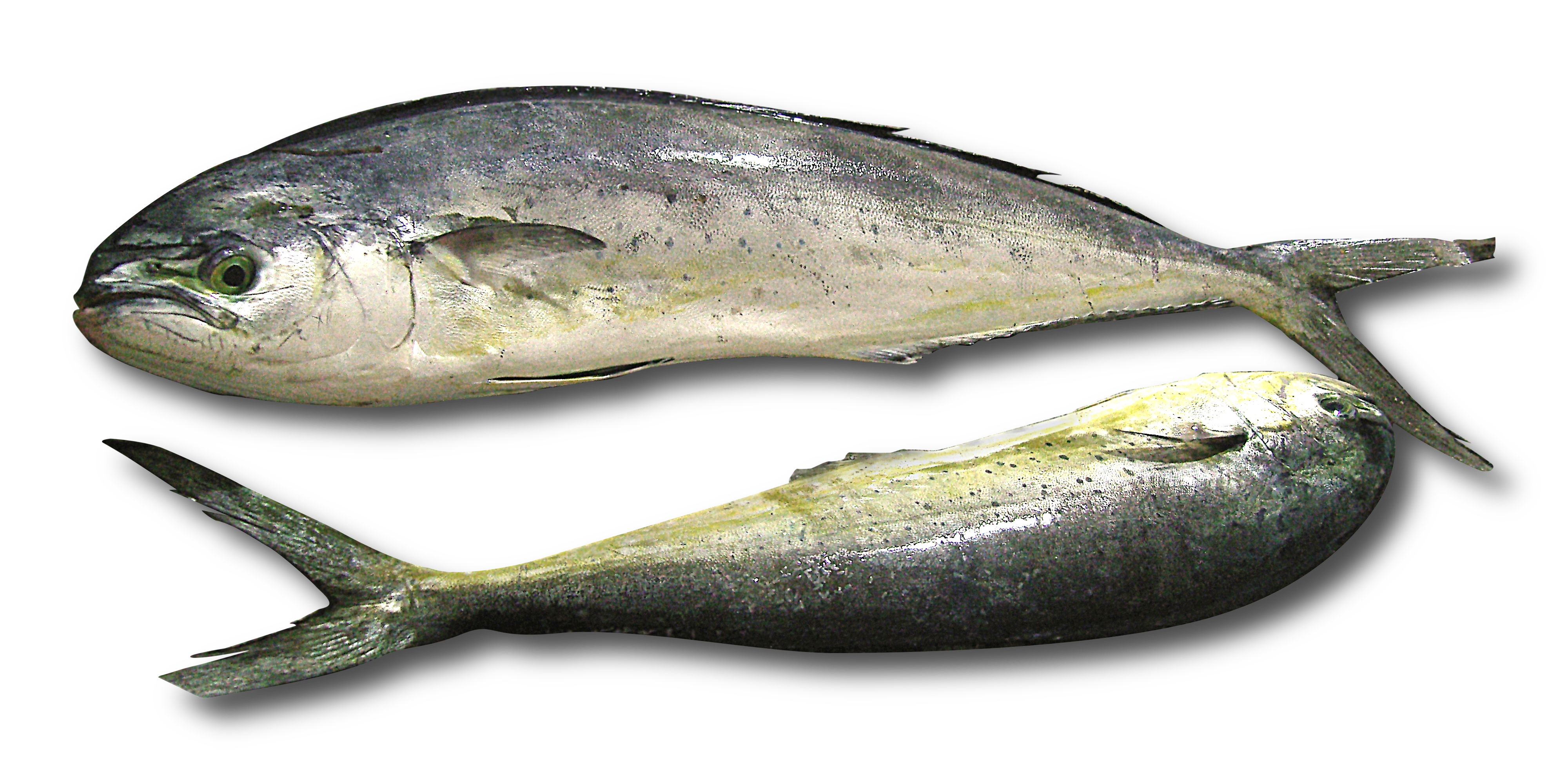 Coryphaena hippurus Linnaeus, 1758